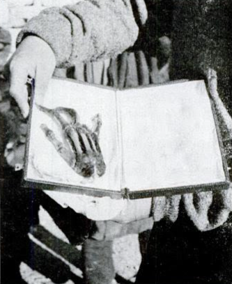 Pangboche Hand which was originally alleged to be from a yeti. DNA testing proved that the hand was human.